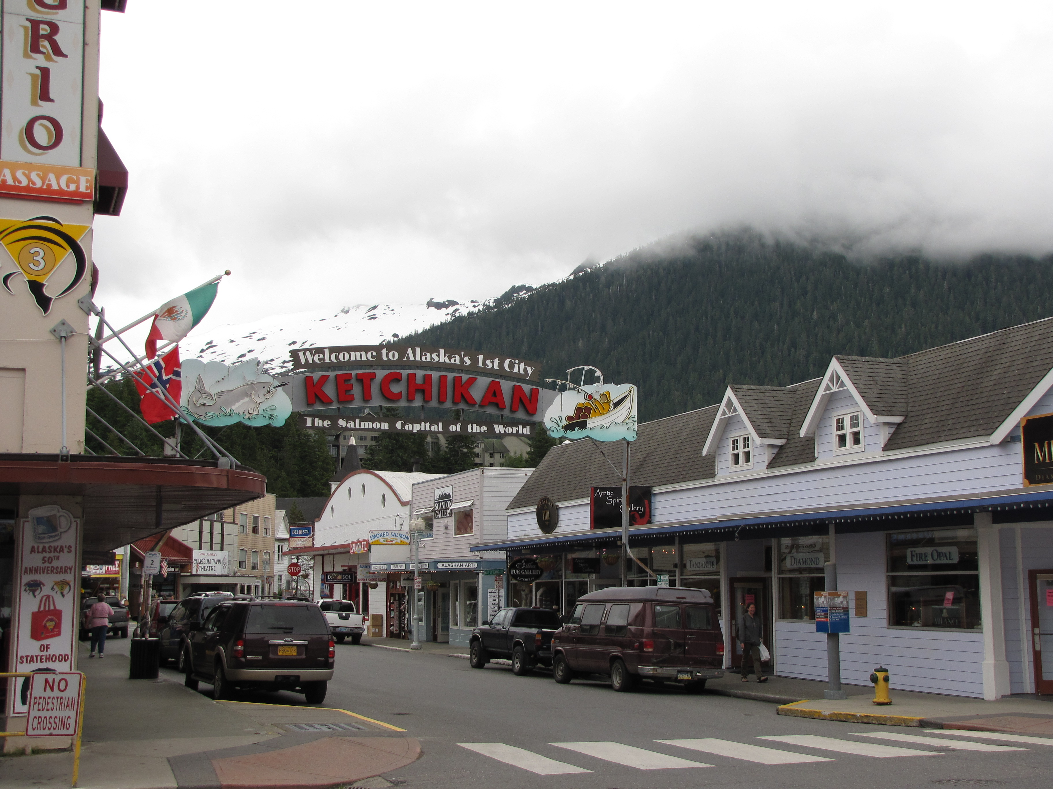 A large sign in Ketchican, Alaska, over Mission St just as it meets Front St.